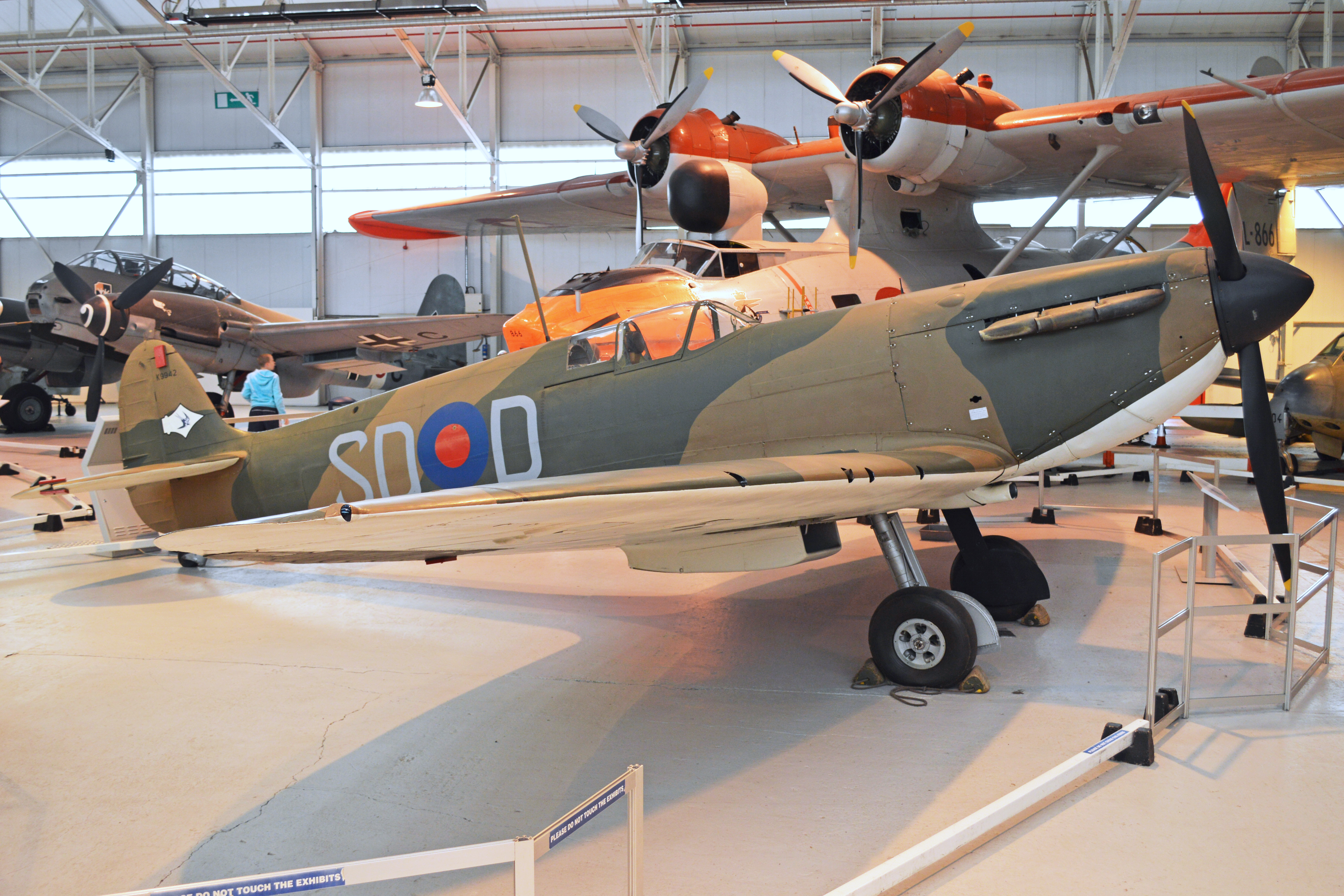 c/n 6S.30225 Built at Eastleigh in 1939, this Spitfire first flew on 21st April 1939 and is now the oldest surviving Spitfire. She served initially with 72sqn and was coded SD-D but at the outbreak of war this was changed to RN-D. A wheels up landing at Gravesend on 5th June 1940 ended her front-line service and once repaired she was sent to 57 Operational training Unit (OTU) at Hawarden and coded LV-C. In April 1943 she was transferred to 53 OTU and remained with them until damaged on 22nd October 1943. Repaired again, in August 1944 she was allocated for museum use and stored. As well as regular static appearances during annual ‘Battle of Britain Week’ celebrations, she also appeared in the background of the 1951 movie ‘Angels One Five’. In July 1967 she travelled to Henlow to assist with the making of ‘The Battle of Britain’ movie but did not appear in it. Instead, she was used in ‘The Devils Brigade’ which was filmed at Henlow during 1967 and also used P7350 and BM597. By September 1968 she had been repainted into pre-war 72sqn colours, although incorrectly coded as SD-V. In November 1971 she arrived at Hendon for display and remained there until October 1997 when she went to the Medway Aircraft Preservation Society for restoration. A very thorough restoration took place which included removing several later modifications to return the aeroplane to original 1939 condition as far as possible. Now correctly painted as SD-D, she returned to Hendon in December 2000 but moved on to Cosford in November 2002 where she is currently on display in the ‘War in the Air’ hangar. RAF Museum, Cosford, Shropshire, UK. 14th August 2016